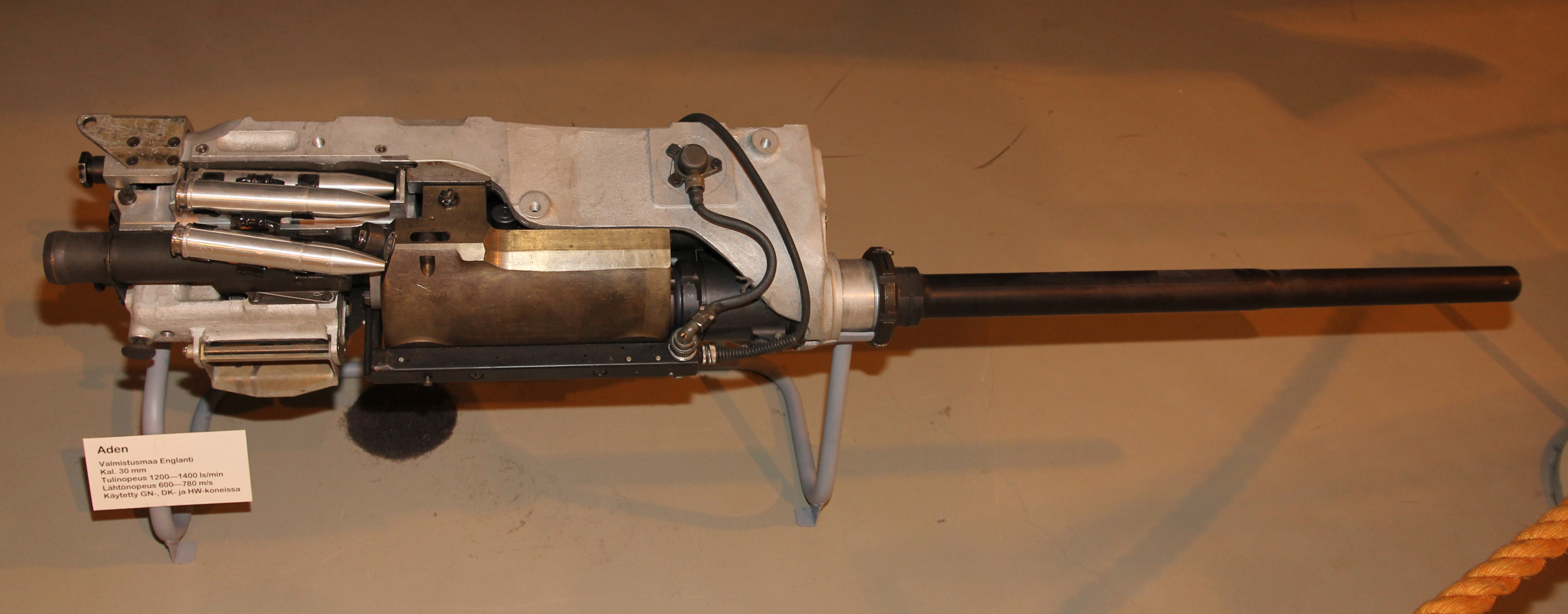 30 mm ADEN cannon used by Finnish Air Force in Saab 35 Draken fighters, as well as in Folland Gnat and De Havilland Vampire fighters. Photographed in Aviation Museum of Central Finland.